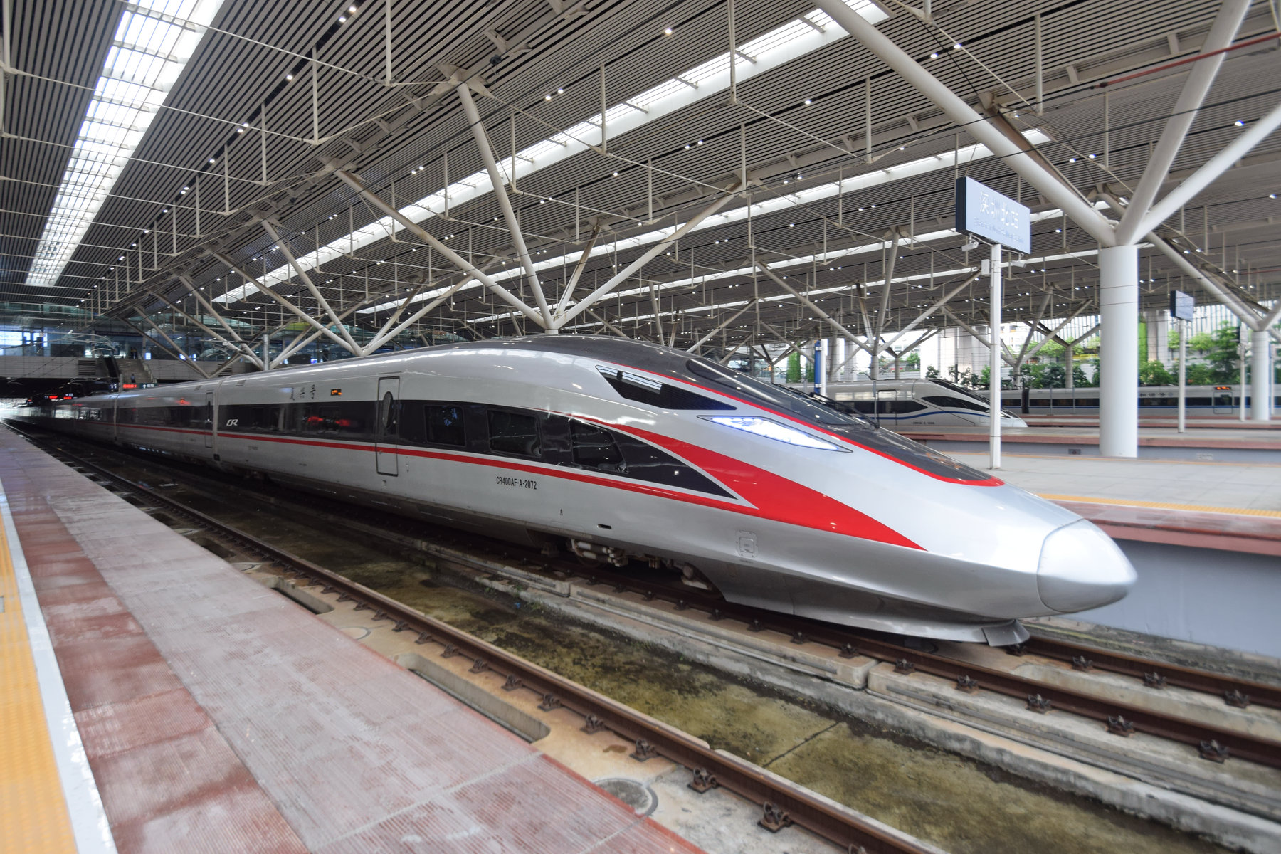 Guangzhou-Shenzhen-Hong Kong High-Speed Railway G6511 CR400AF-A-2072 was stopping at Shenzhen Bei (North) Railway Station.